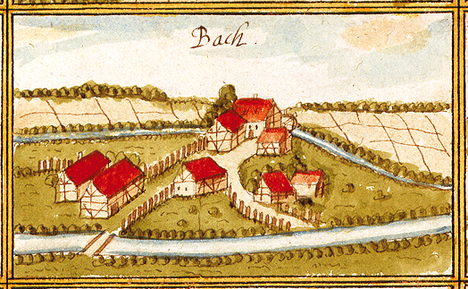 View of Baach, Schnait, Weinstadt, from the forest register books created by Andreas Kieser